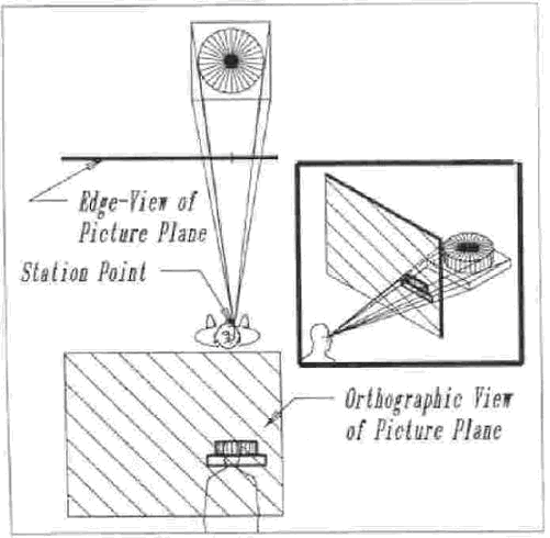 Comparison of human sight with perspective projection.